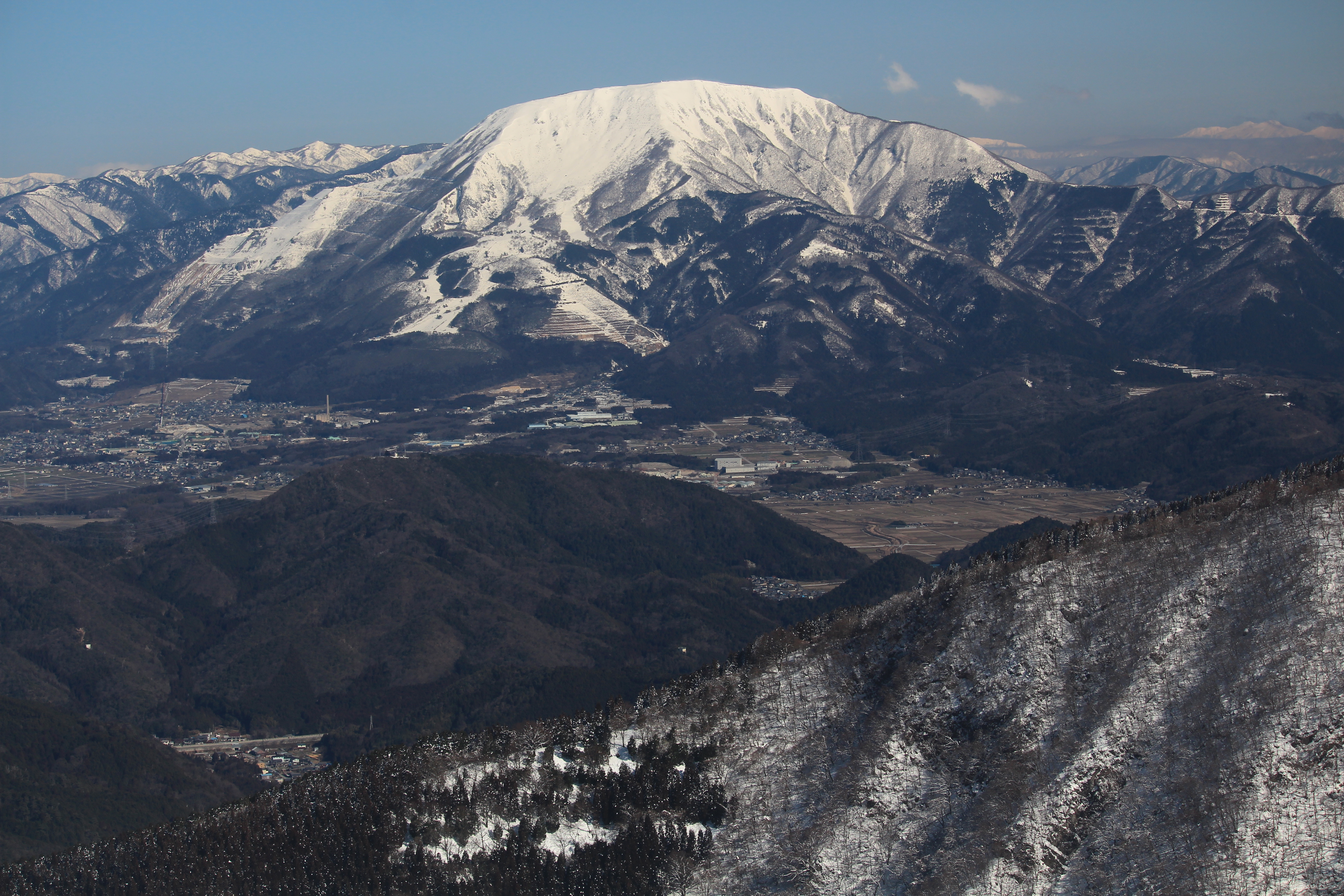 Mount Ibuki seen from Mount Ryozen (Suzuka Mountains) in Shiga Prefecture, Japan.